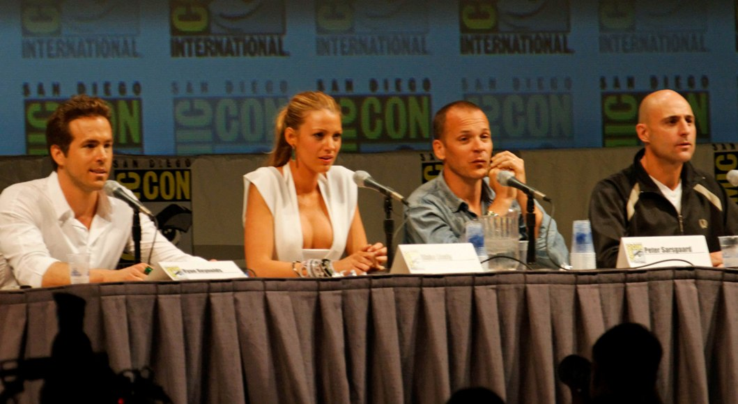 Green Lantern panel at the 2010 San Diego Comic-Con International with Ryan Reynolds, Blake Lively, Peter Sarsgaard and Mark Strong.